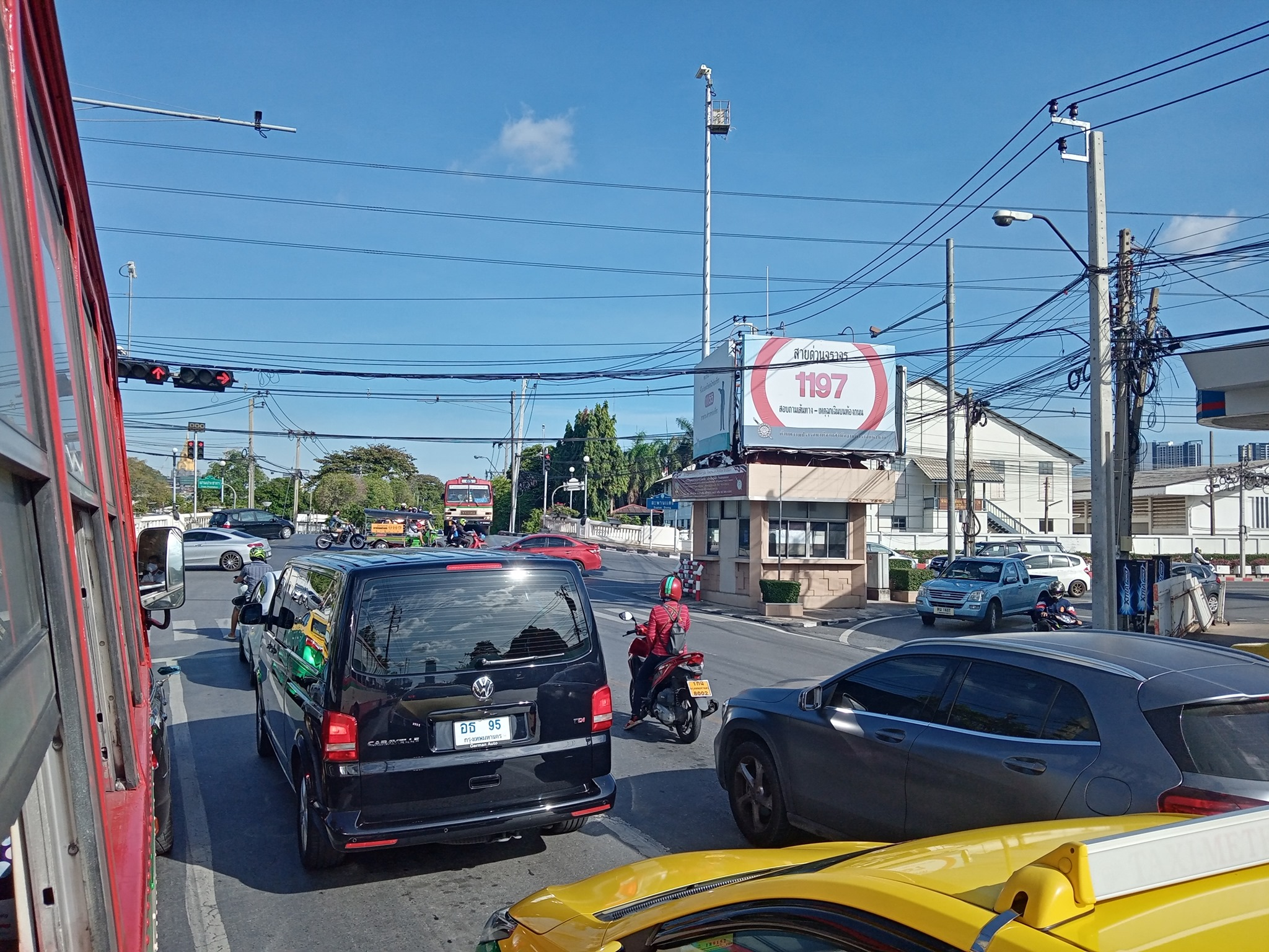 Saphan Daeng Intersection, Thanon Nakhon Chai Si, Dusit, BKK.